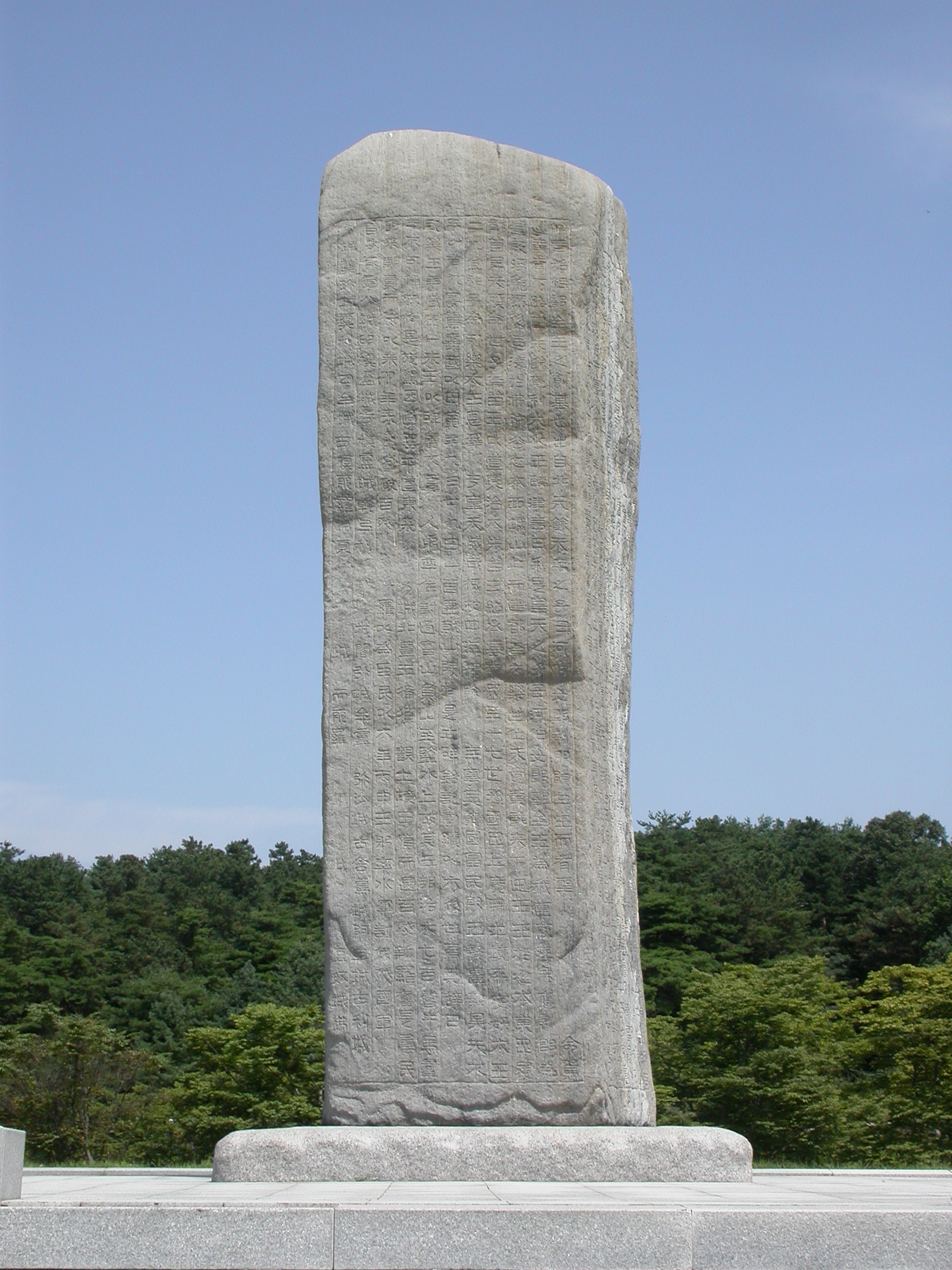 Gwanggaeto Stele replica, Independence Hall of Korea